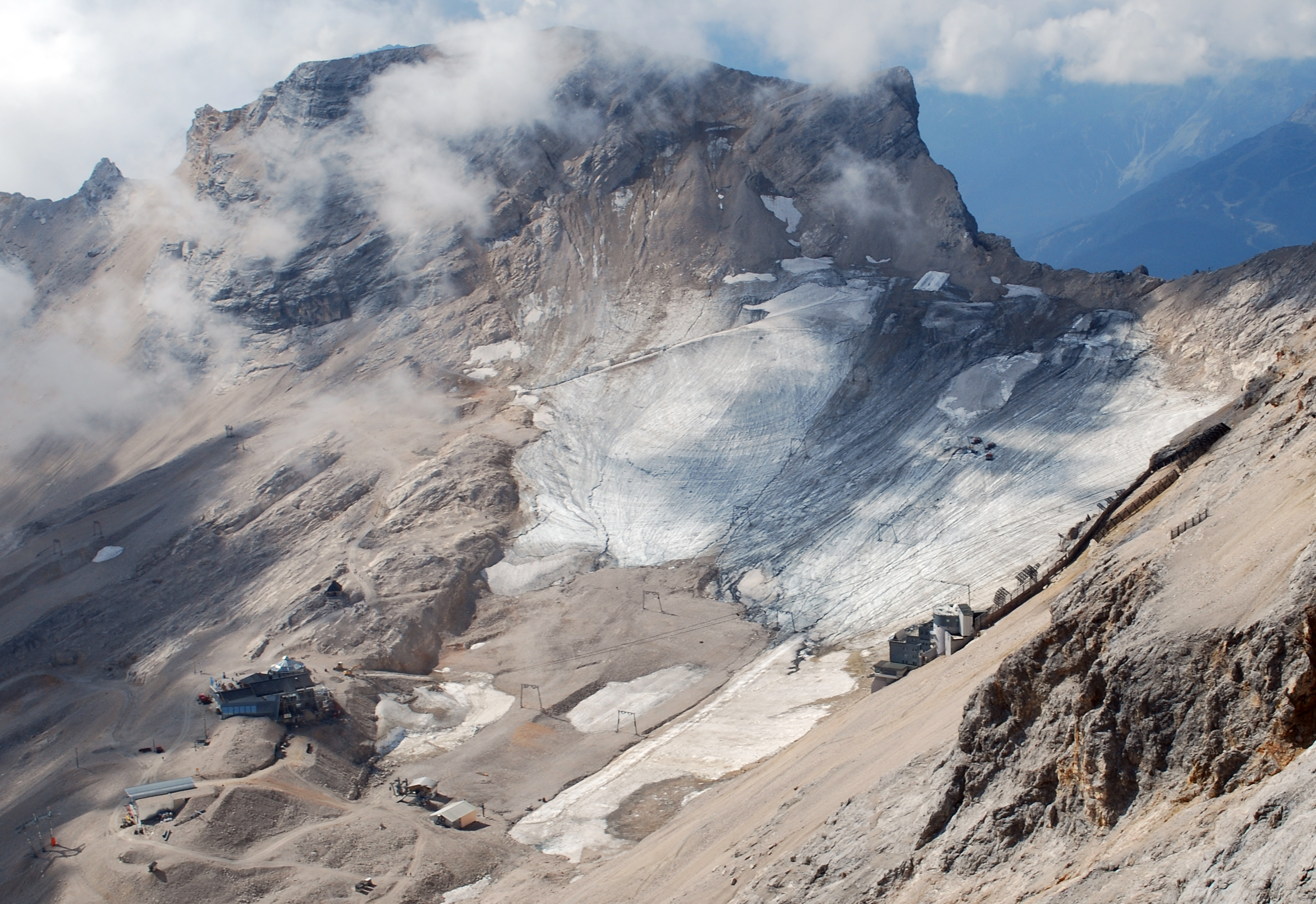 Nördlicher Schneeferner from NE (Jubiläumsgrat)